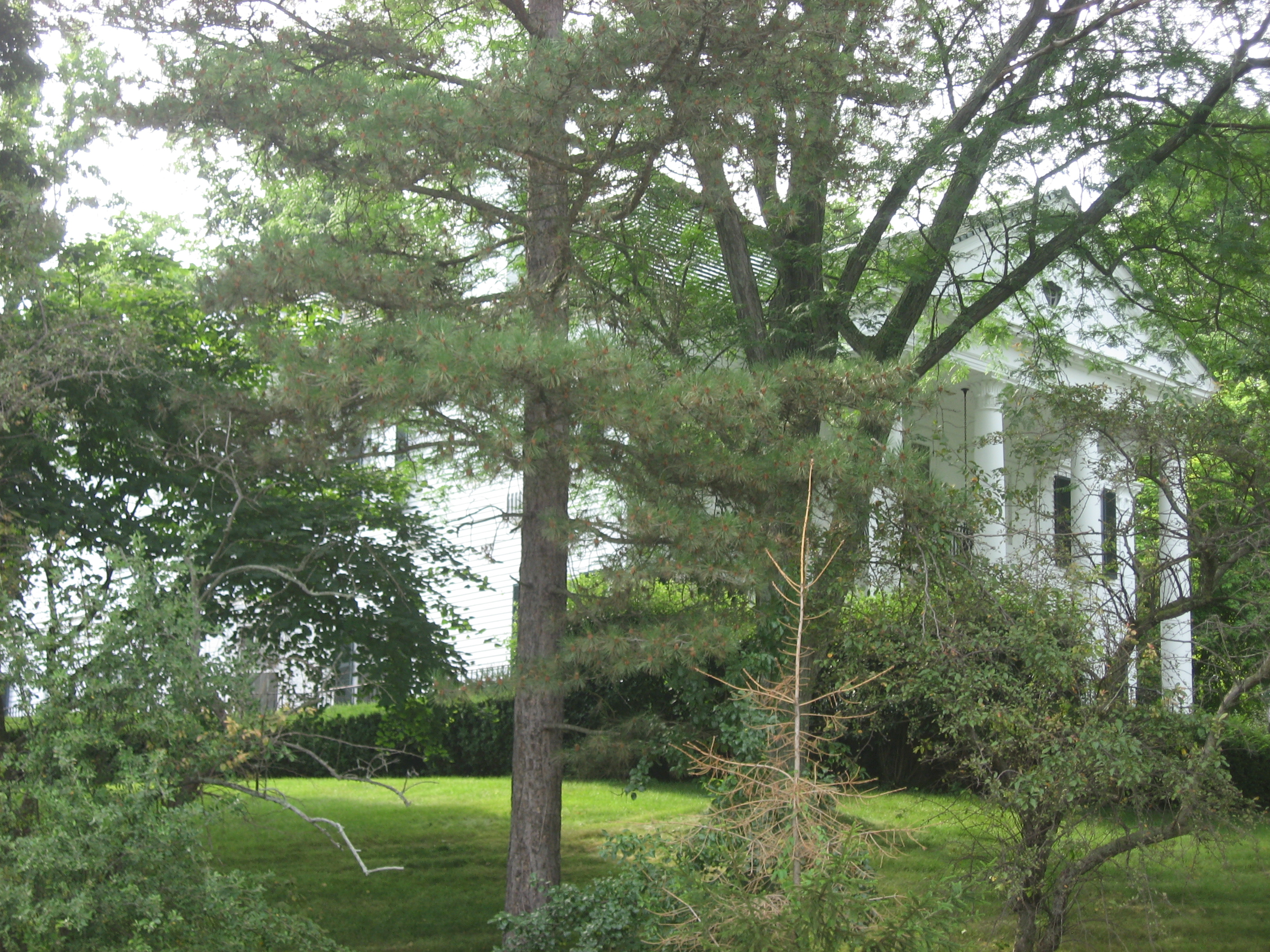 Front and southern side of Arrowston, located at 1220 Park Avenue (State Route 185) in Piqua, Ohio, United States. Built in 1887, it is listed on the National Register of Historic Places.